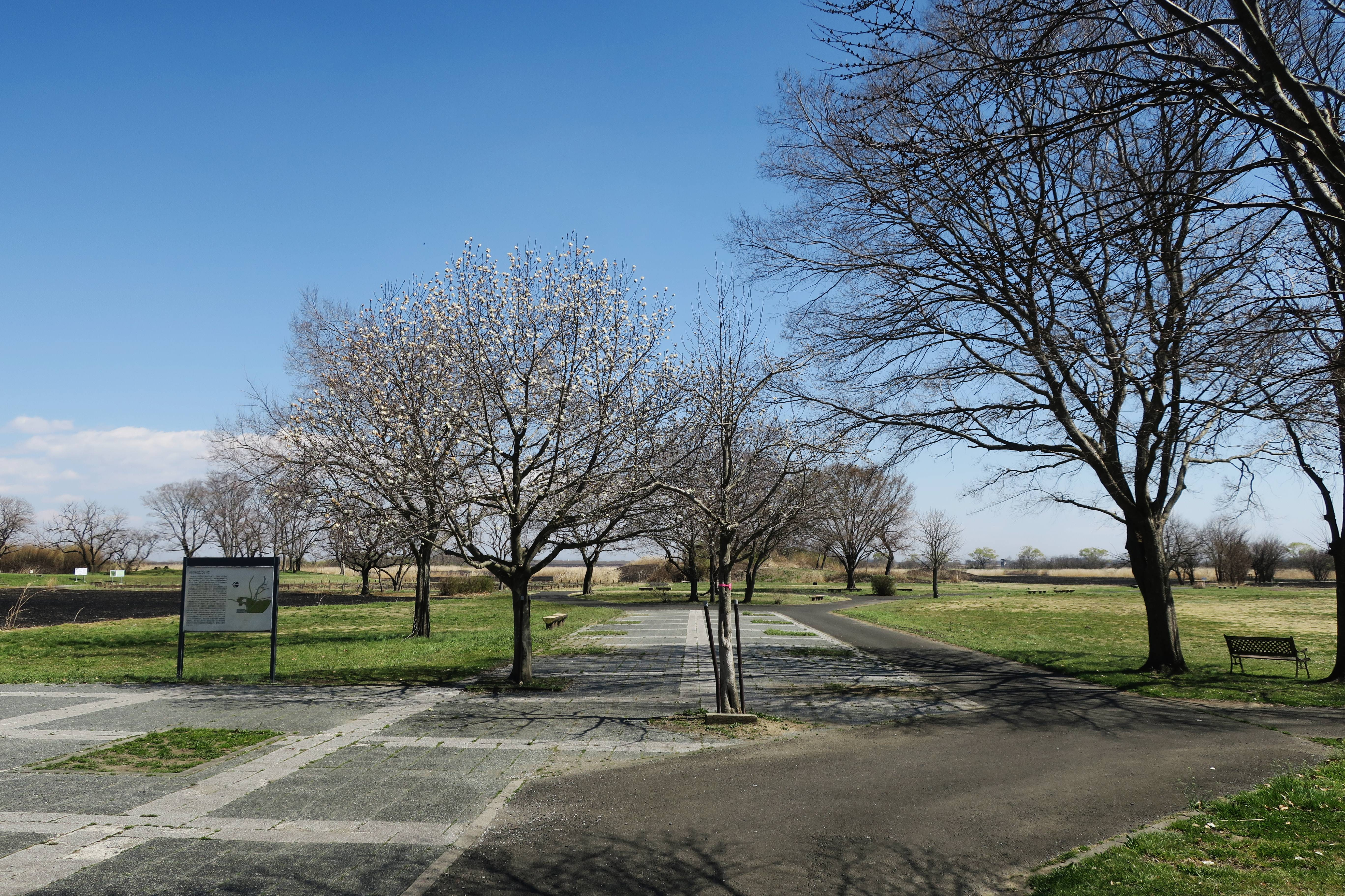 Watarase Retarding Basin Former Yanaka village entrance.